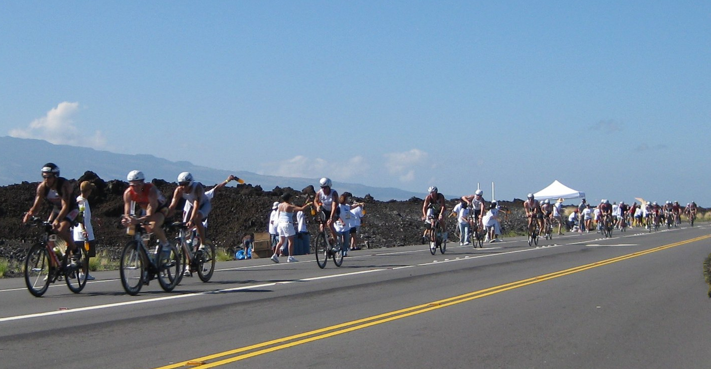 2009 Ironman - Big Island Hawaii. Aid Station Mauna Lani waypoint.